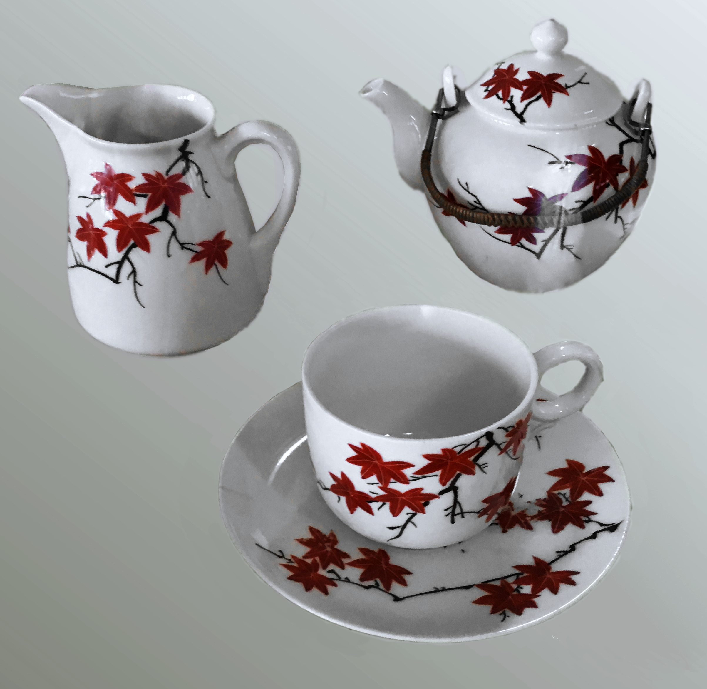 Nikkō Kanaya Hotel coffee pot and set in maple leaves design (紅葉). In 1888, the hotel opened as a full-scale hotel in Nikkō, which was popular among foreigners as a summer resort during the Meiji era. The coffee pot and cups in red maple leaves design was used at the time of opening, and as a truly Japanese design, delighted foreign guests. Collection Meiji Mura Museum, display in the Imperial Hotel lobby café.[1]